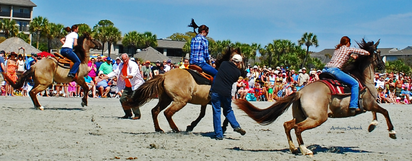 Carolina Marsh Tackies horses at Hilton-Head